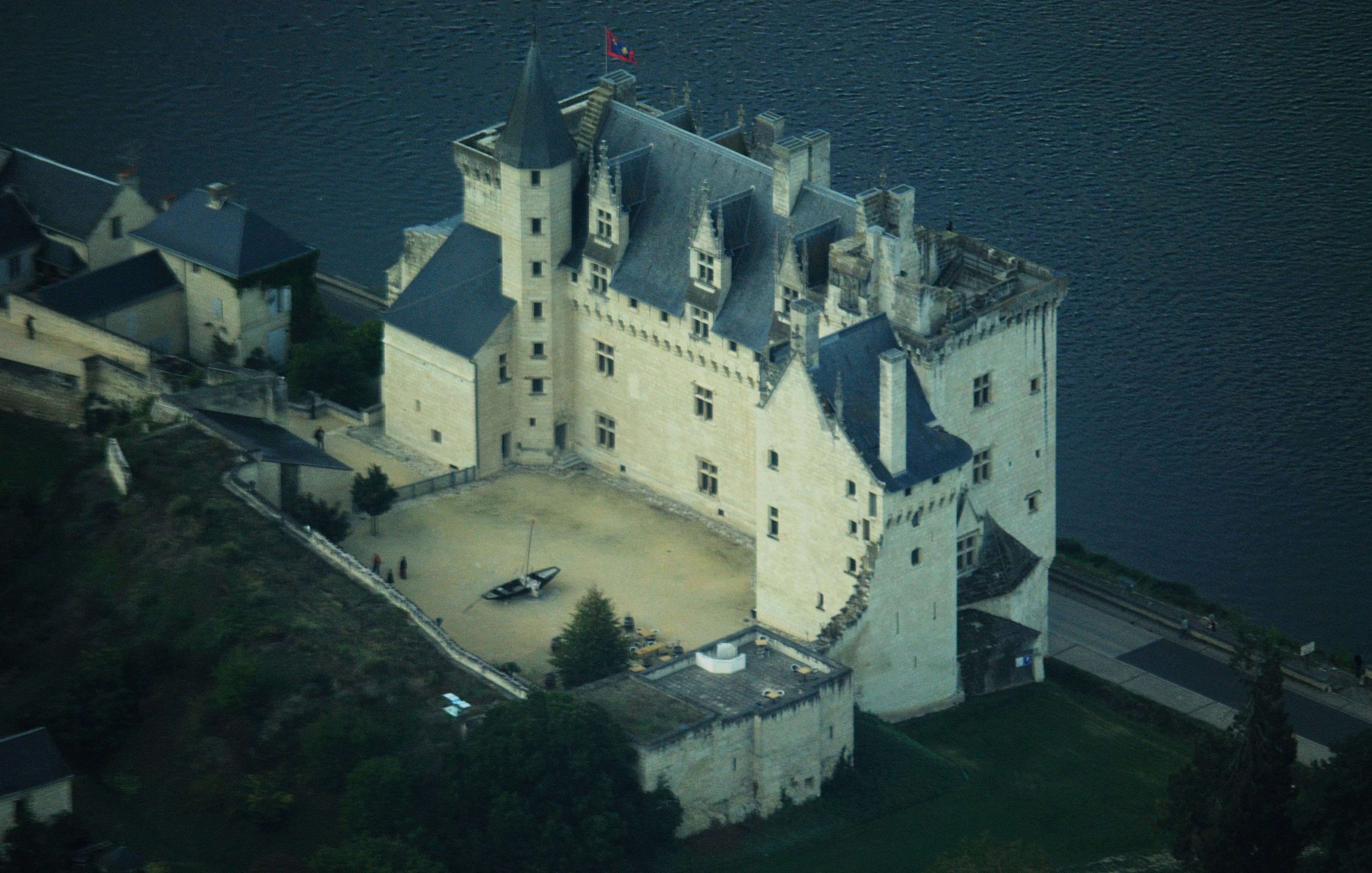 Aerial view of Montsoreau castle (Maine-et-Loire department, France). Nikon D60 f=200mm f/5.6 at 1/640s ISO 400. Processed using Nikon ViewNX 1.3.0 and GIMP 2.6.6.